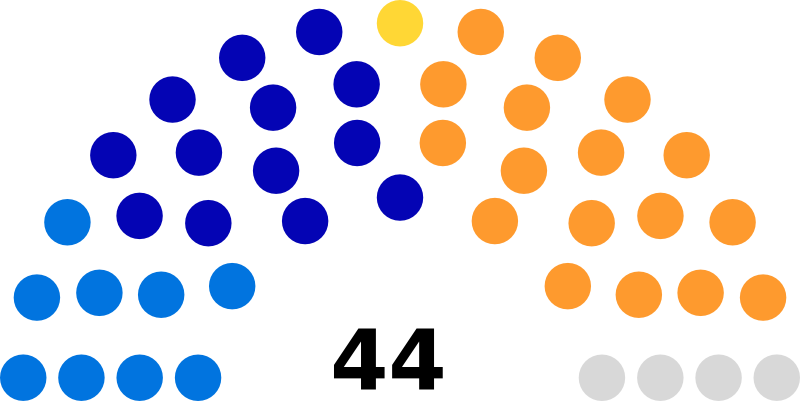 Seats diagramme of Swiss Council of States (1863)